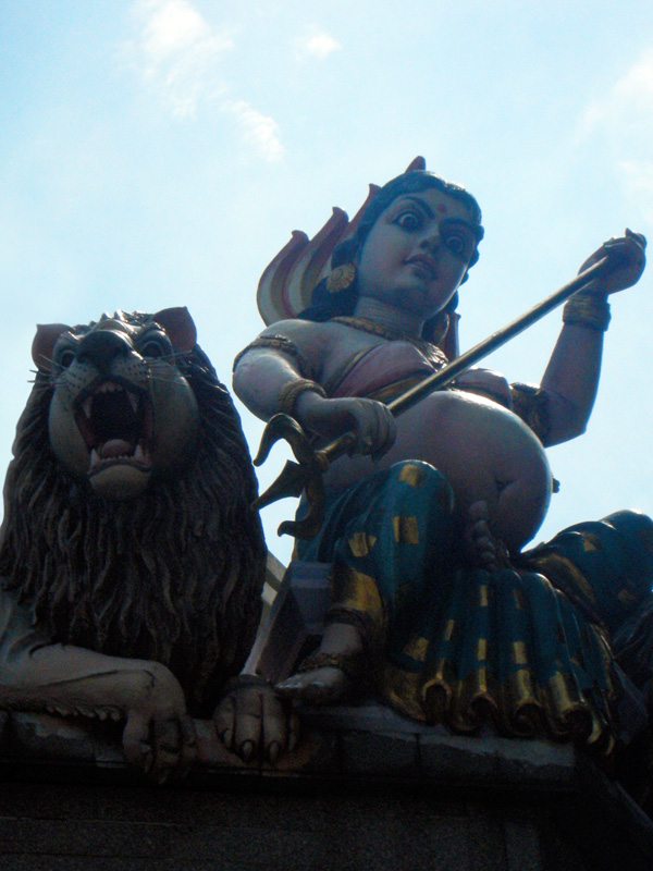 Sculpture of the goddess Mariamman and lion. Sri Mariamman Temple, Singapore - November 2008